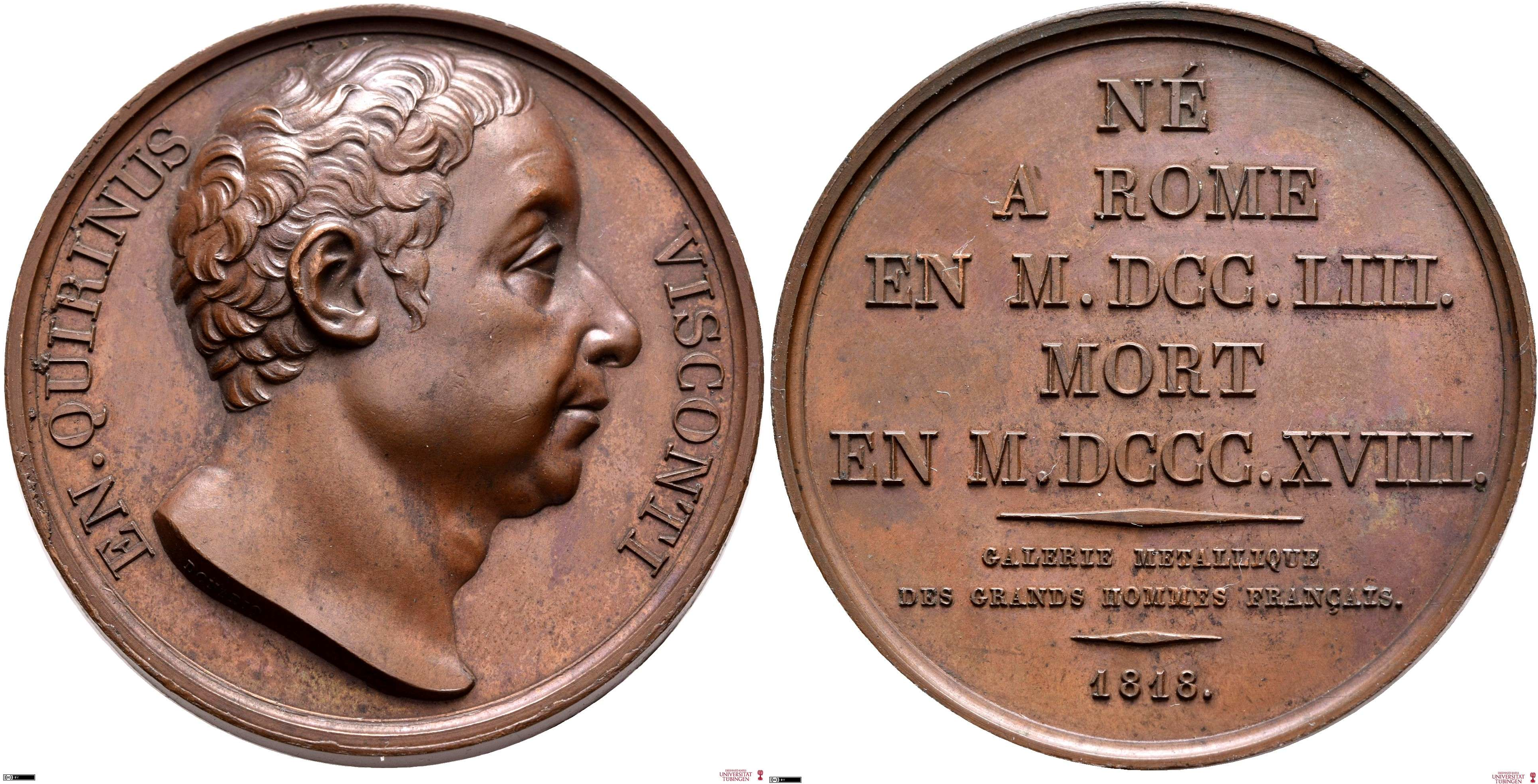 The front side shows the bust of Visconti with his name. The signiture of the engraver is placed below the neck. The back side lists in French year and place of birth and death, name of the series this piece belongs to and year of coinage.